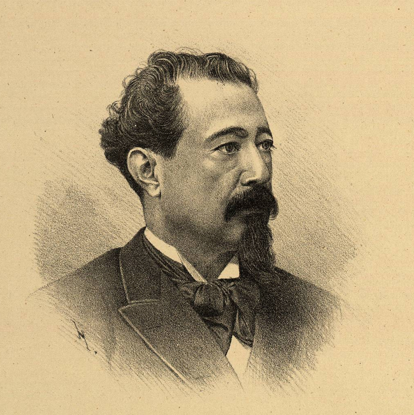 Mexican politician Eduardo Ruiz, lithography from the book The prominent men of Mexico, 1888.